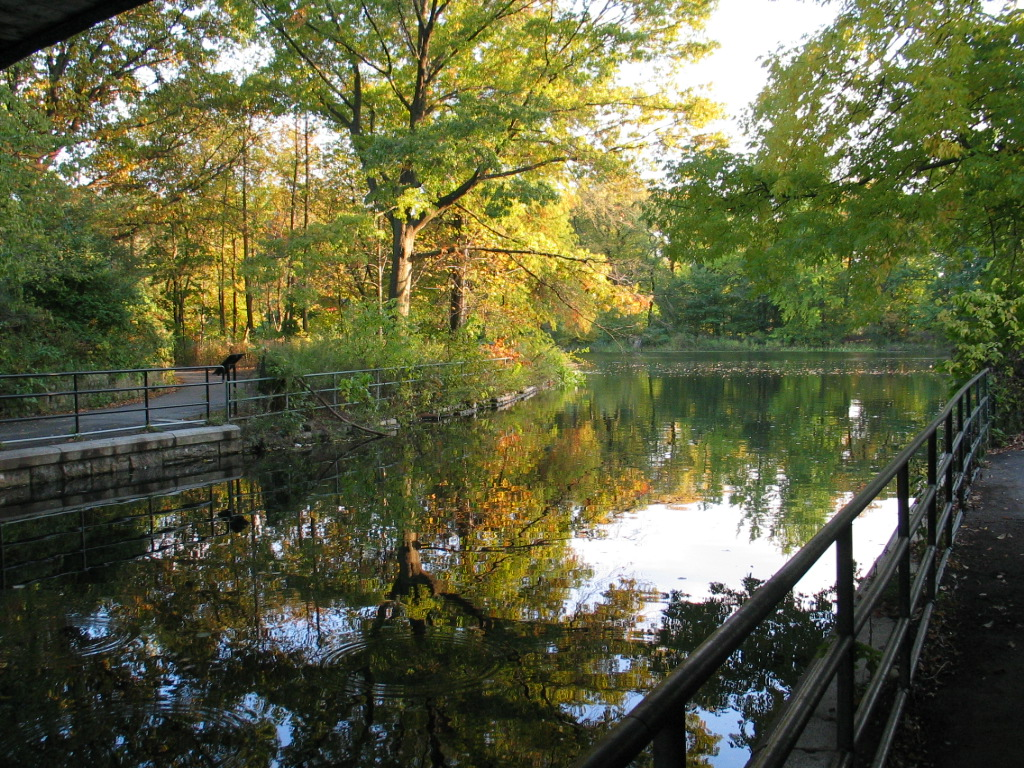 Prospect Park, Brooklyn